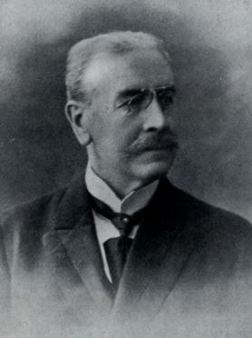 Norwegian writer and professor of pedagogy Otto Anderssen (1851–1922)